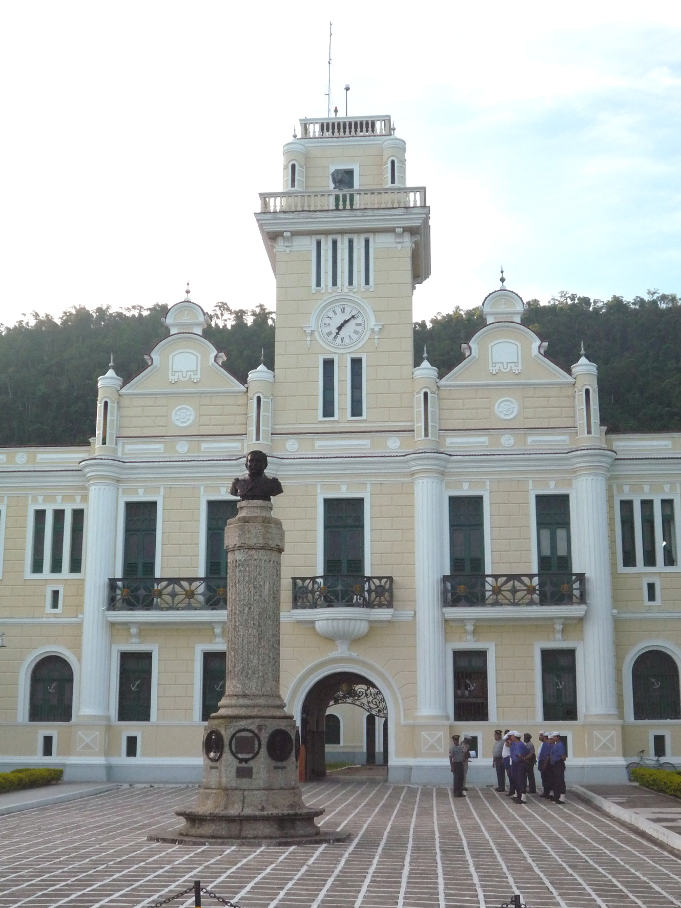 Naval School (Colégio Naval) in Angra dos Reis, Brazil